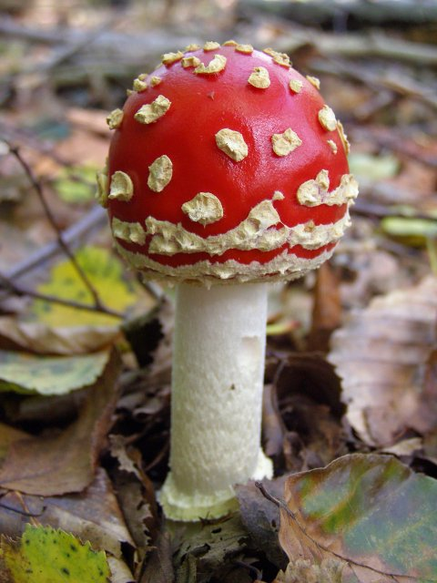 Amanita muscaria fungus, Shave Wood, New Forest Commonly known as fly agaric, the bright red cap is easily spotted against the leaf litter on the woodland floor. Its colour is an obvious warning against ingestion by humans - my mushroom identification book says "Do not try tasting this fungus. [In addition to muscarin and muscimol] it contains further, not yet analysed poisons which are dangerous to health and can, in rare cases, prove fatal".